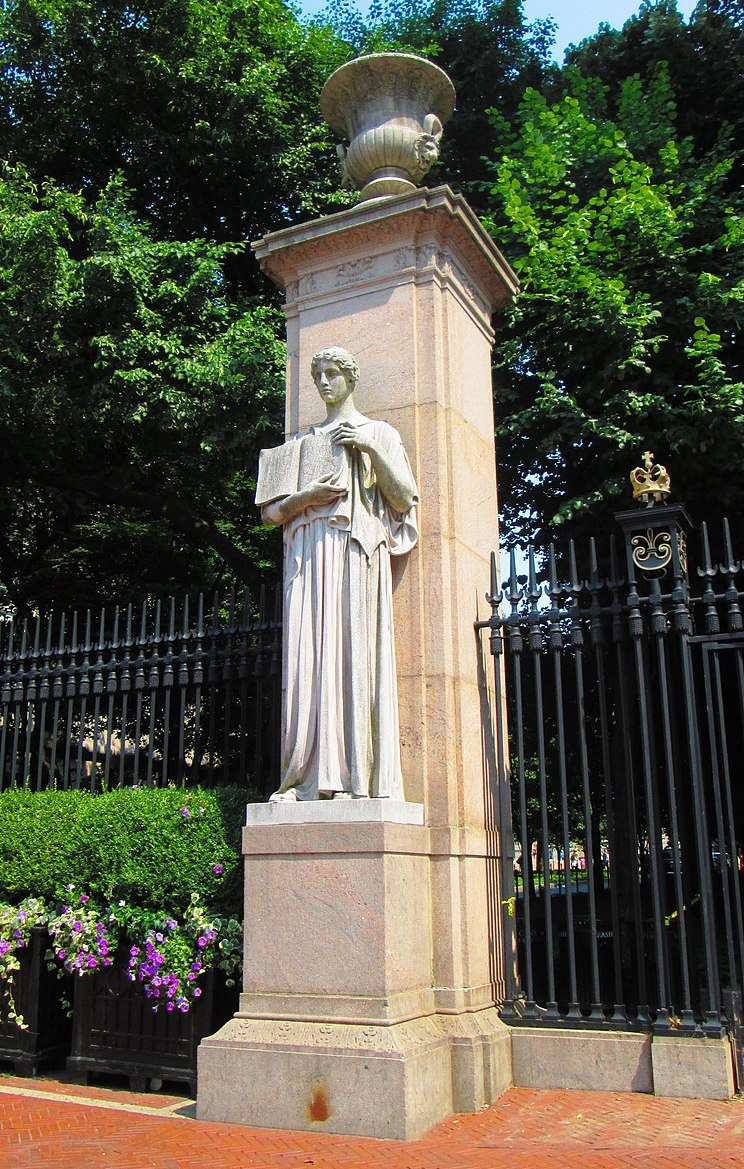 The pylons which mark the 116th Street and Broadway gates of Columbia University were freestanding before 116th Street was closed between Broadway and Amsterdam Avenue to become College Walk. Now, they are integrated into the gates, which were a gift from George Delacorte in 1970. The pylons have statues dedicated to the Sciences and the Arts.